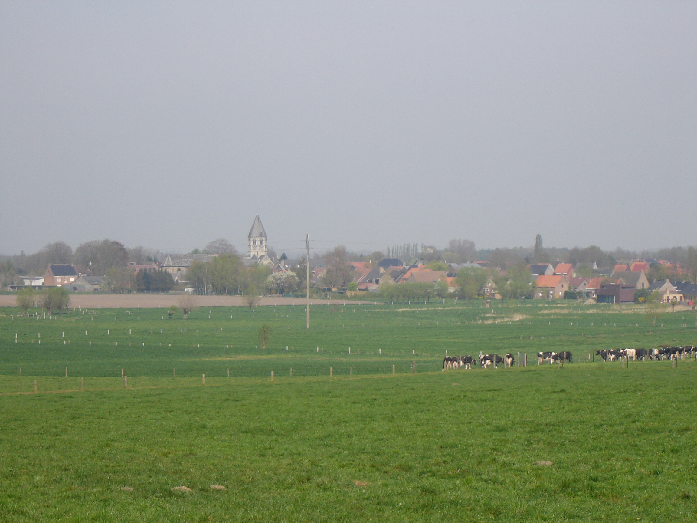 General overview of Ichtegem, more precisely the western part of the village centre, as seen from the street Panoramastraat on the Ruidenberg/Koekelareberg hill. Ichtegem, West-Flanders, Belgium